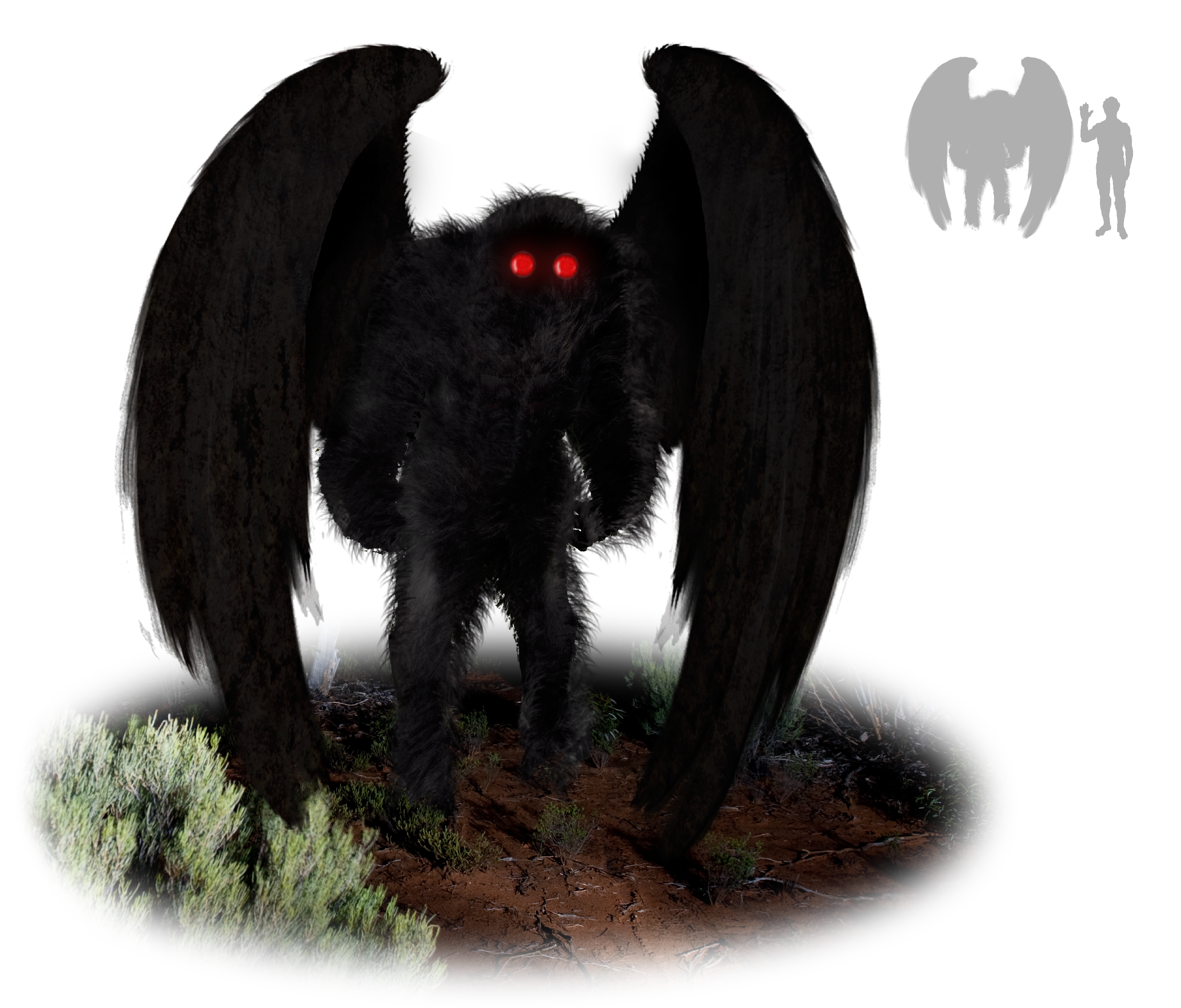 Artist's impression of the mothman